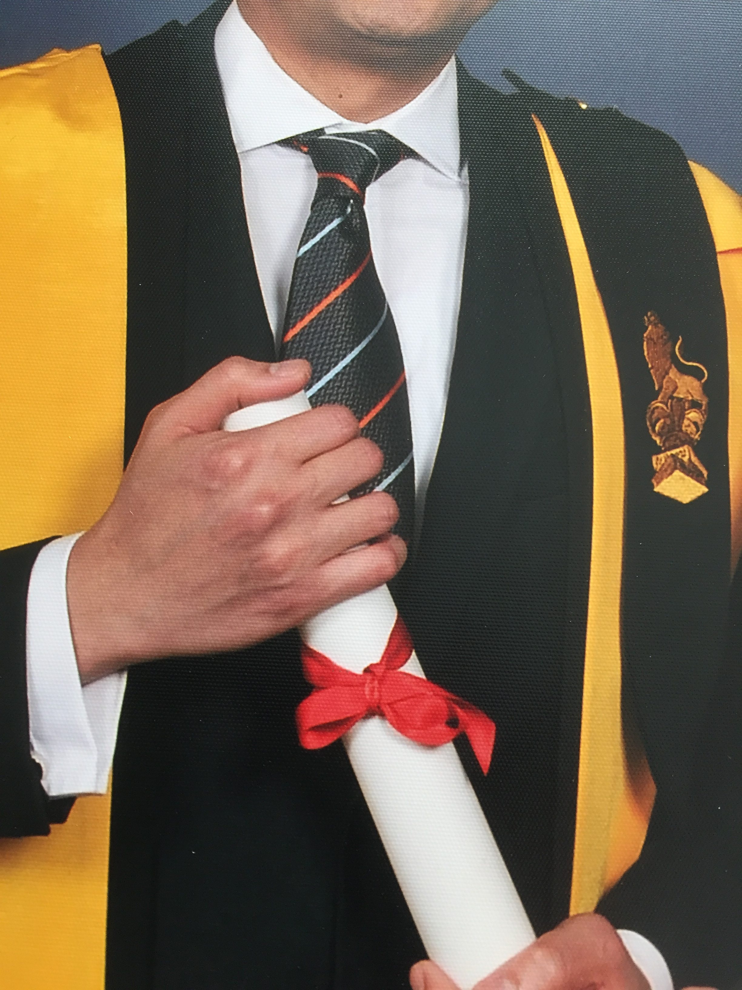 KCL academic dress with AKC award epitoge pinned on shoulder